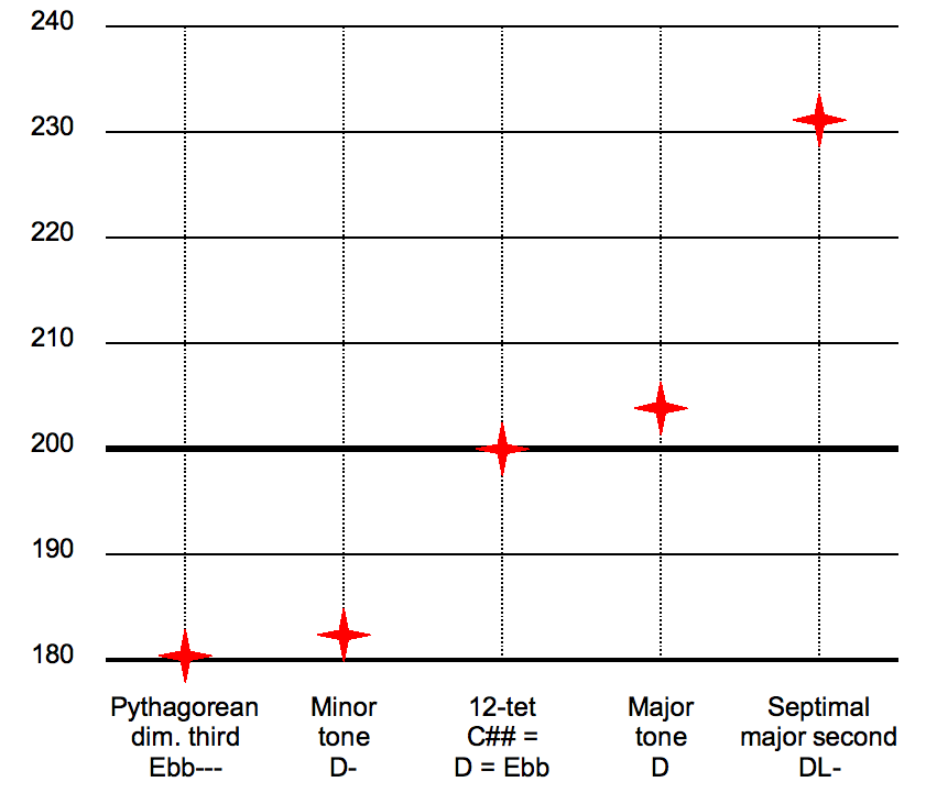 Comparison of notes derived from and near one major second. E--- = 65536 : 59049 = 180.45 D- = 10 : 9 = 182.40 C=D=E = ratio = 200 D = 9 : 8 = 203.91 D- = 8 : 7 = 231.17